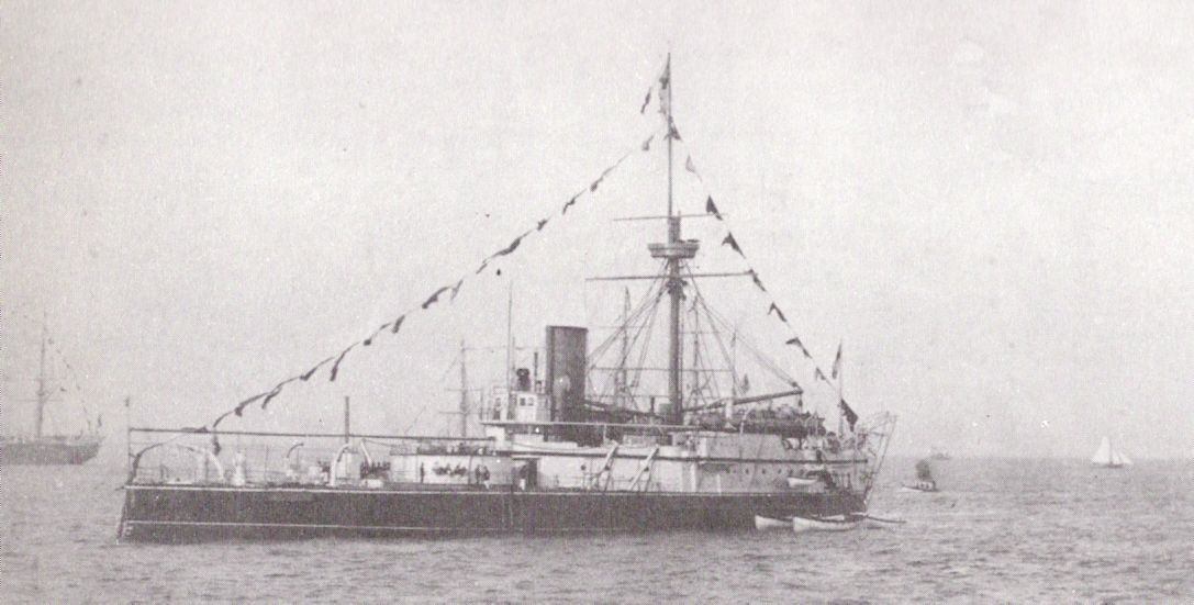 British coast defence battleship HMS Conqueror as she appeared when completed